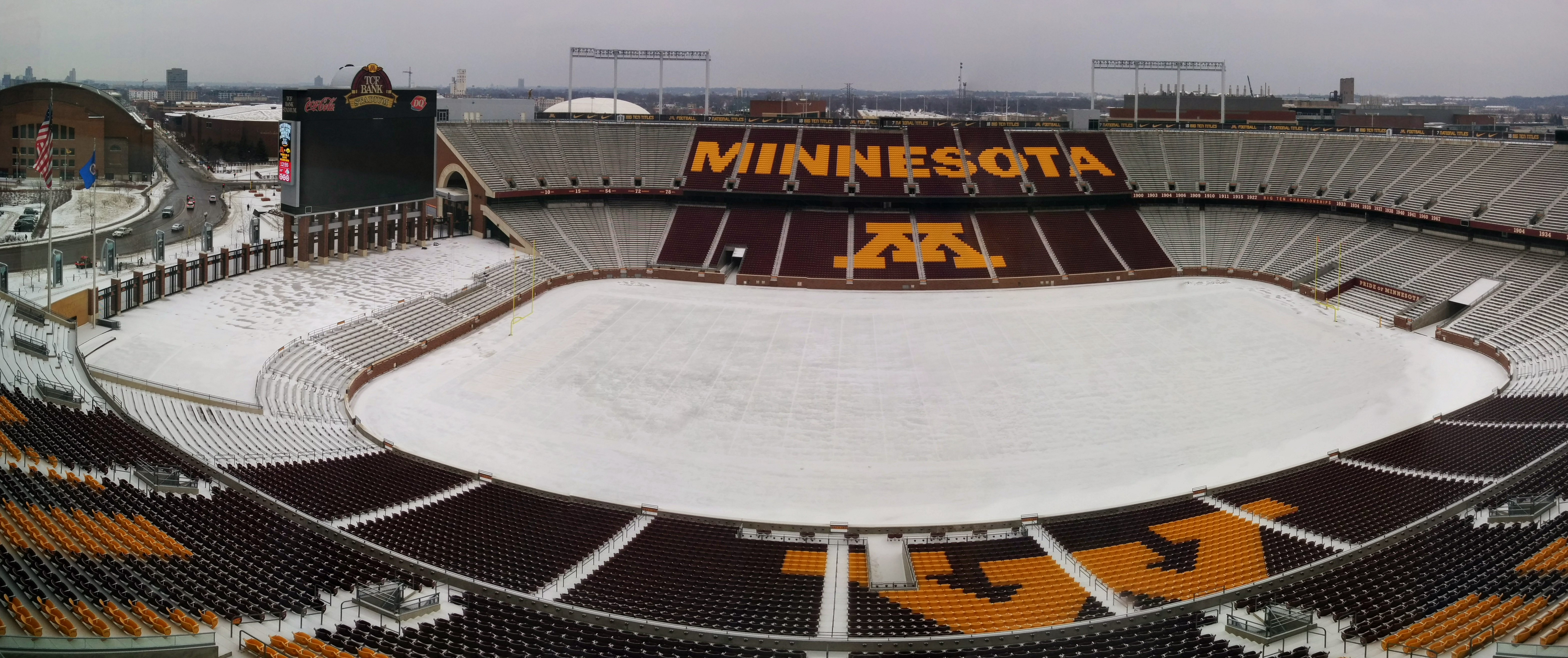 TCF Bank Stadium in winter. University of Minnesota in Minneapolis, Minnesota.